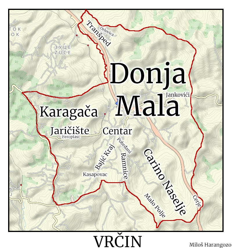 Map of Vrčin.